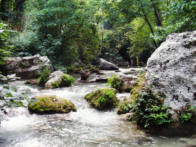 Zeynel Cebeci. Kayaci Vadisi (Kayaci Valley)and Limonlu stream borne. Erdemli, Mersin in Turkey